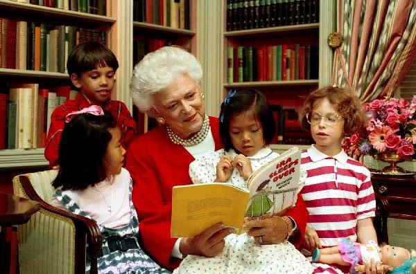 Mrs. Barbara Bush reads to children in the White House Library